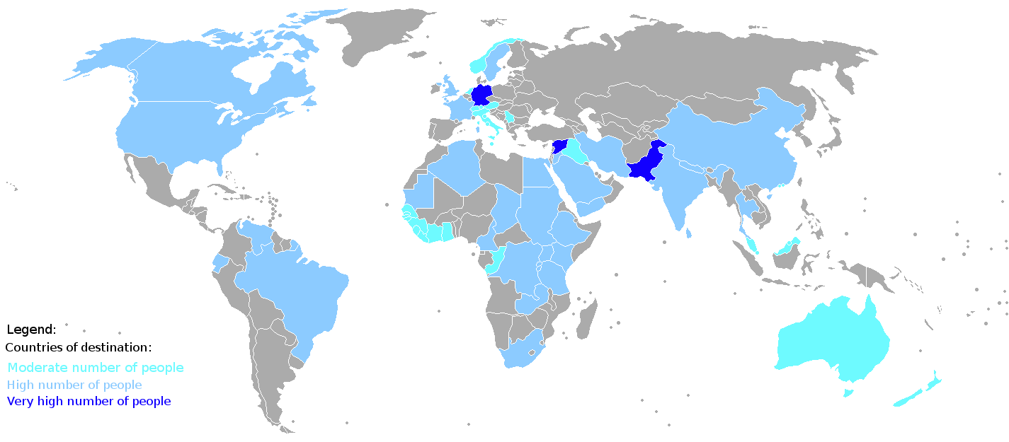 Map of refugee hosting countries in 2007. Note that the same countries seem to switch from being mostly an origin country of refugees one year to mostly a hosting country the next year. Also, even in a same year, the maps of origin and hosting countries seem to overlap; so refugees flow to and out of a country at the same time. This is odd to some extent, as it is a contradiction (it indicates that a country has certain problems such as famine, violence/war, ... ( and then again, it doesn't as other people flock to the countries as well. If only a certain region of the country had these issues, then most people would leave the country at all (hence not appearing as a major origin country of refugees; maps of IDP's then again would indicate this). The map was made using data from Ilya Boyandin.